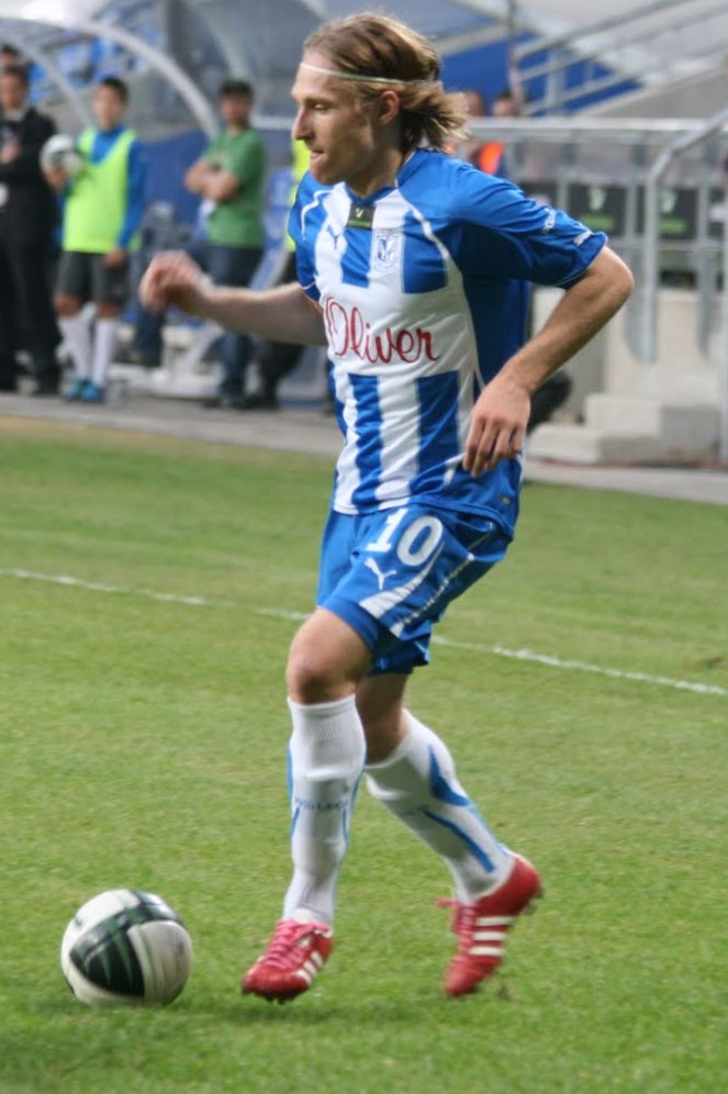 Belarusian football player Siarhiej Kryviec